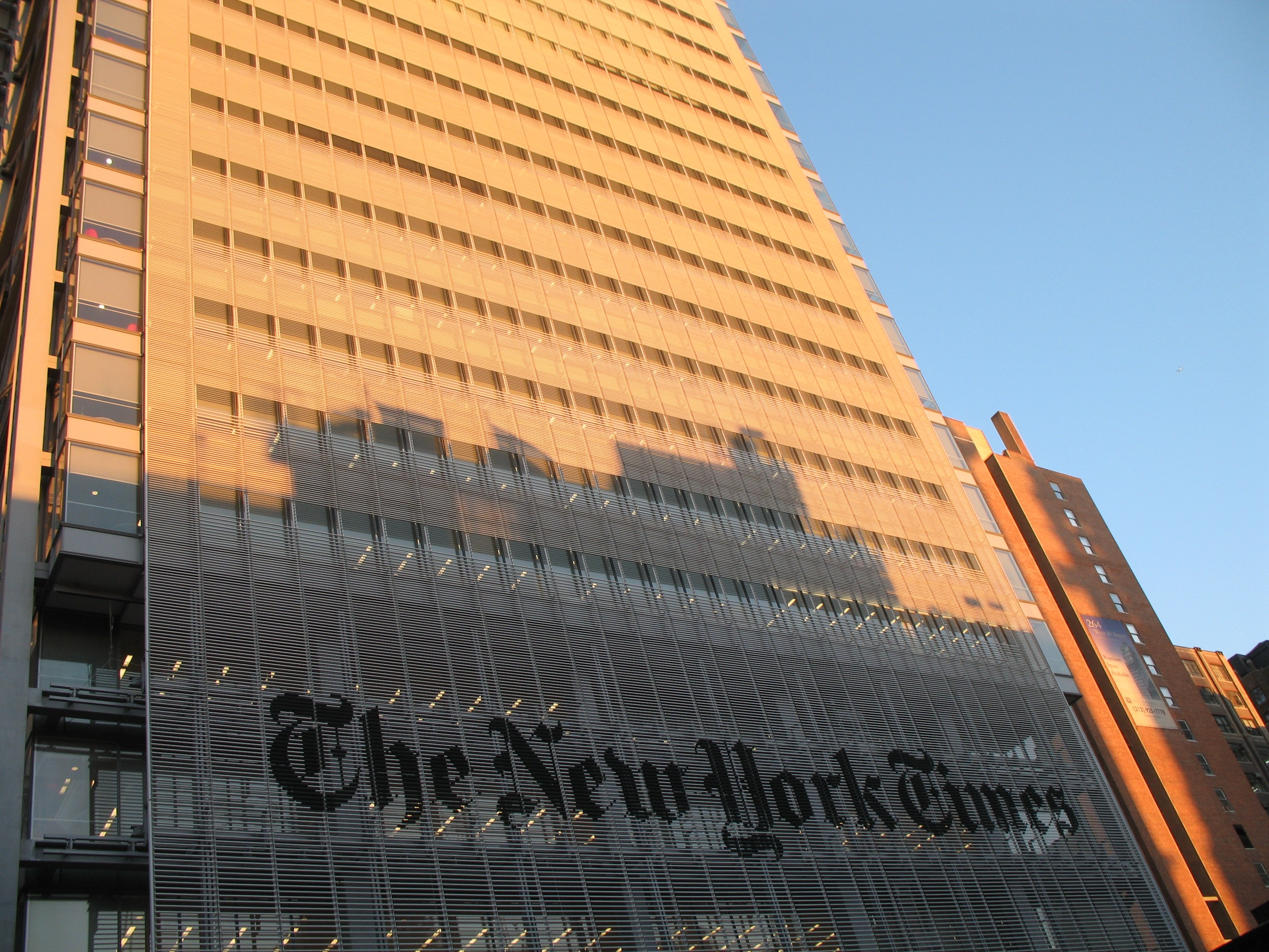 New New York Times headquarters. Photo by poster in July 2007.